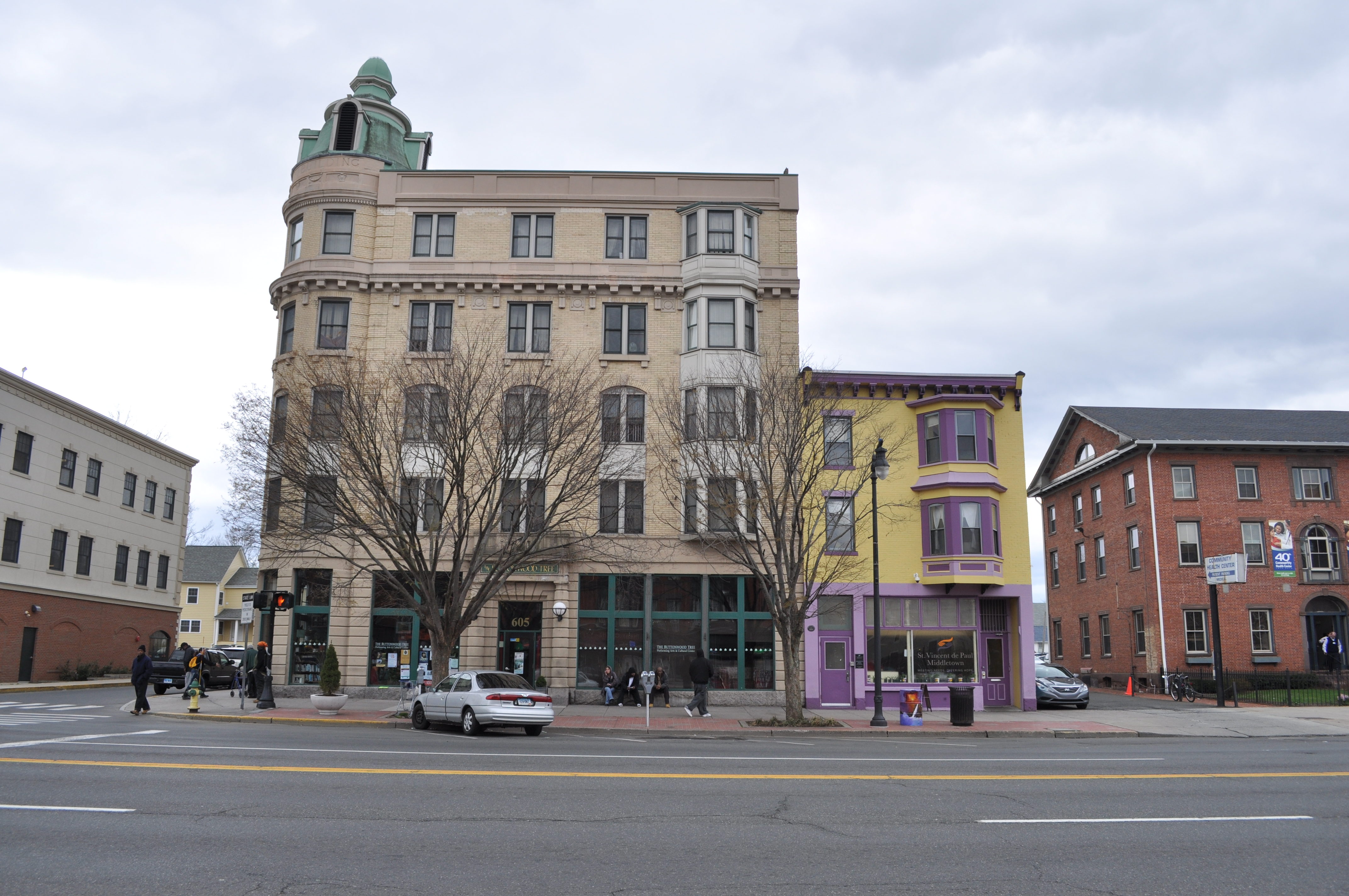 Arrigoni Building, (former Hotel Arrigoni, now low-income housing), 601-607 Main Street, Middletown, Connecticut, USA (built 1914). A contributing property of the Main Street Historic District, which is listed on the National Register of Historic Places. To its right, Scranton Building, 613-617 Main Street; part of Arthur Magill, Jr. House - Chase School, 625-631 Main Street